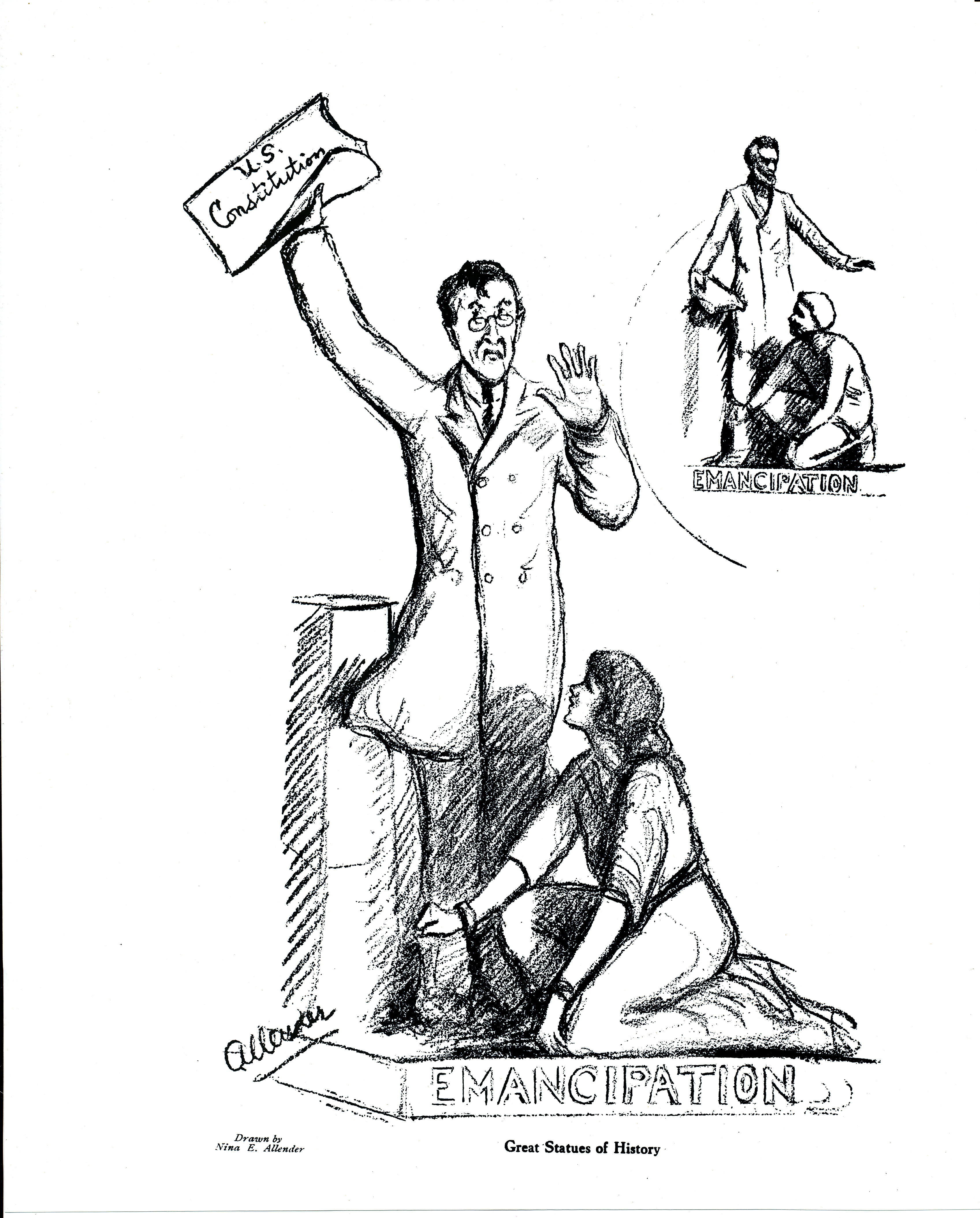 Published in The Suffragist 23 Jan 1915.